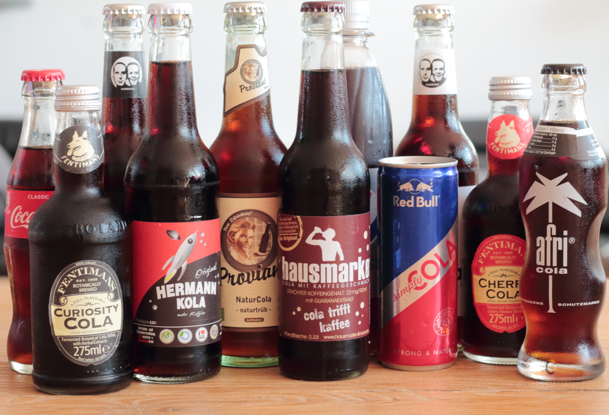 Collection of different Colas.